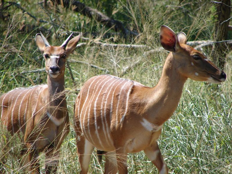 Nyala at Umfolozi, South Africa